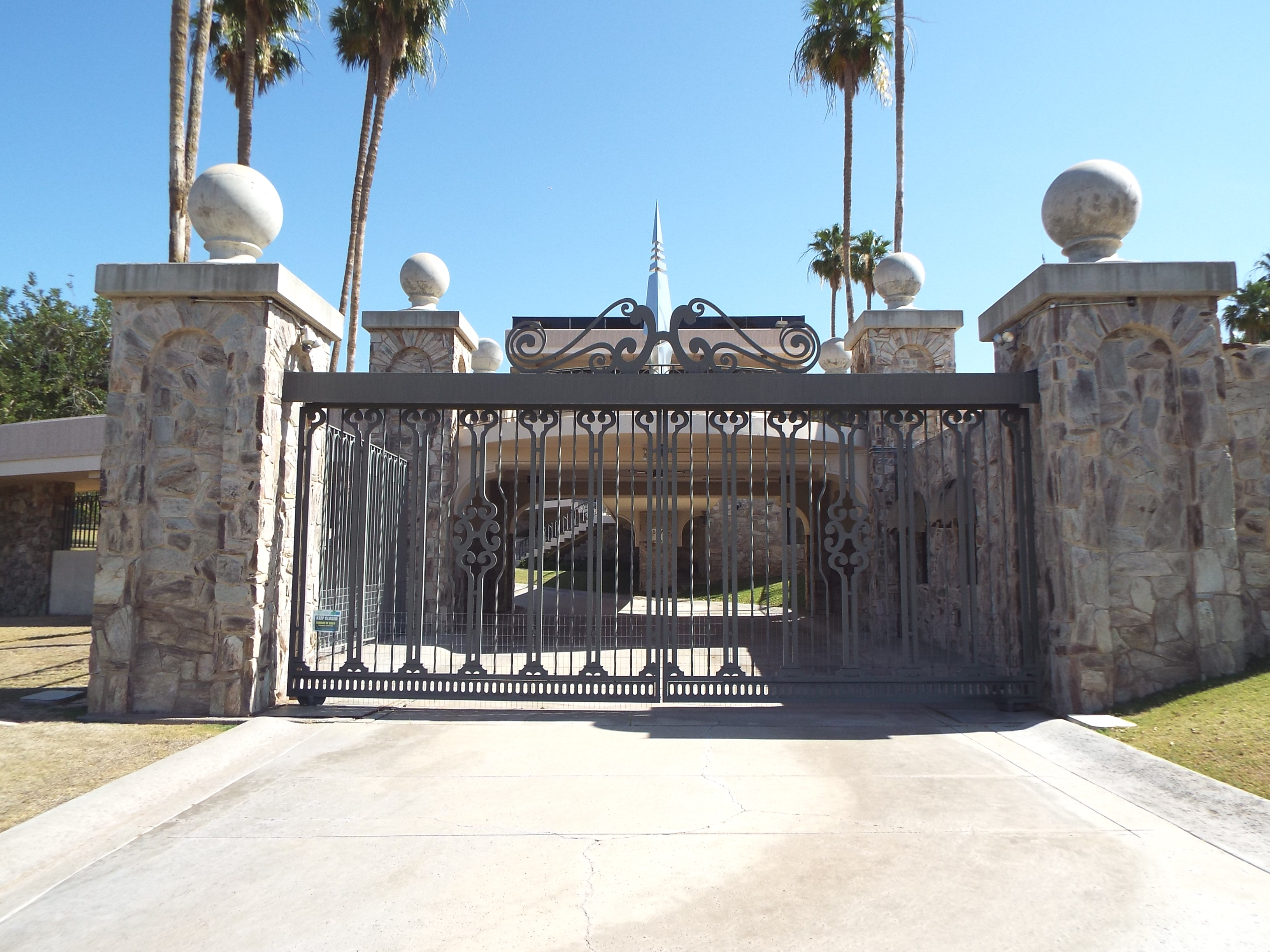 The McCure Mansion/Hormel Mansion was built in 1967 and is located at 6112 N. Paradise View Drive atop Sugar Loaf Mountain in Paradise Valley, Arizona. This is the main driveway of the mansion.Phoenix Business Journal